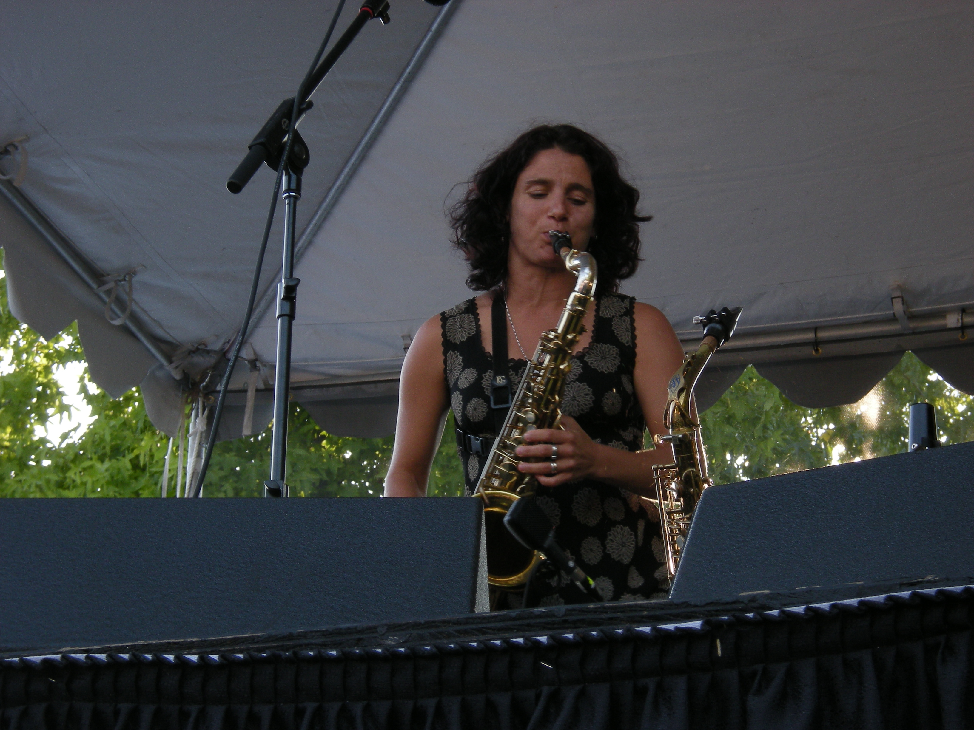 Jessica Lurie, Billy Tipton Memorial Saxophone Quartet, performing at Bumbershoot 2008, Seattle Center, Seattle, Washington.